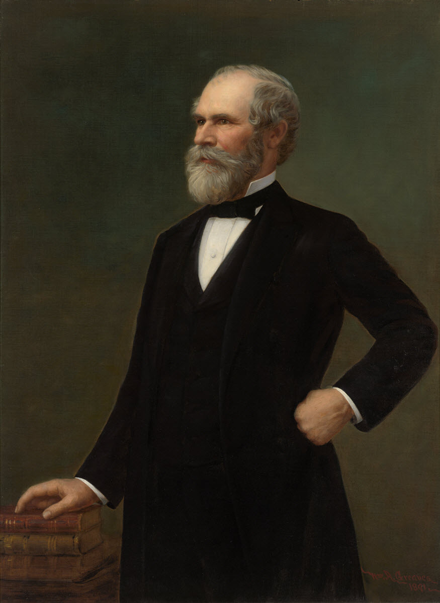 In 1891, the Commonwealth of Pennsylvania commissioned artist William A. Greaves, a well-regarded portrait artist from the state, to complete portraits of former Speakers Galusha Grow and Samuel J. Randall. Grow posed for his portrait nearly 30 years after he served as Speaker. Both portraits were presented to the House of Representatives on January 22, 1892. The three-quarter length portrait depicts Grow as an older man than he was during his tenure as Speaker. The strident, firm pose, however, captures the spirit of Grow’s confrontational positions—particularly on the issue of slavery—that defined his early career.